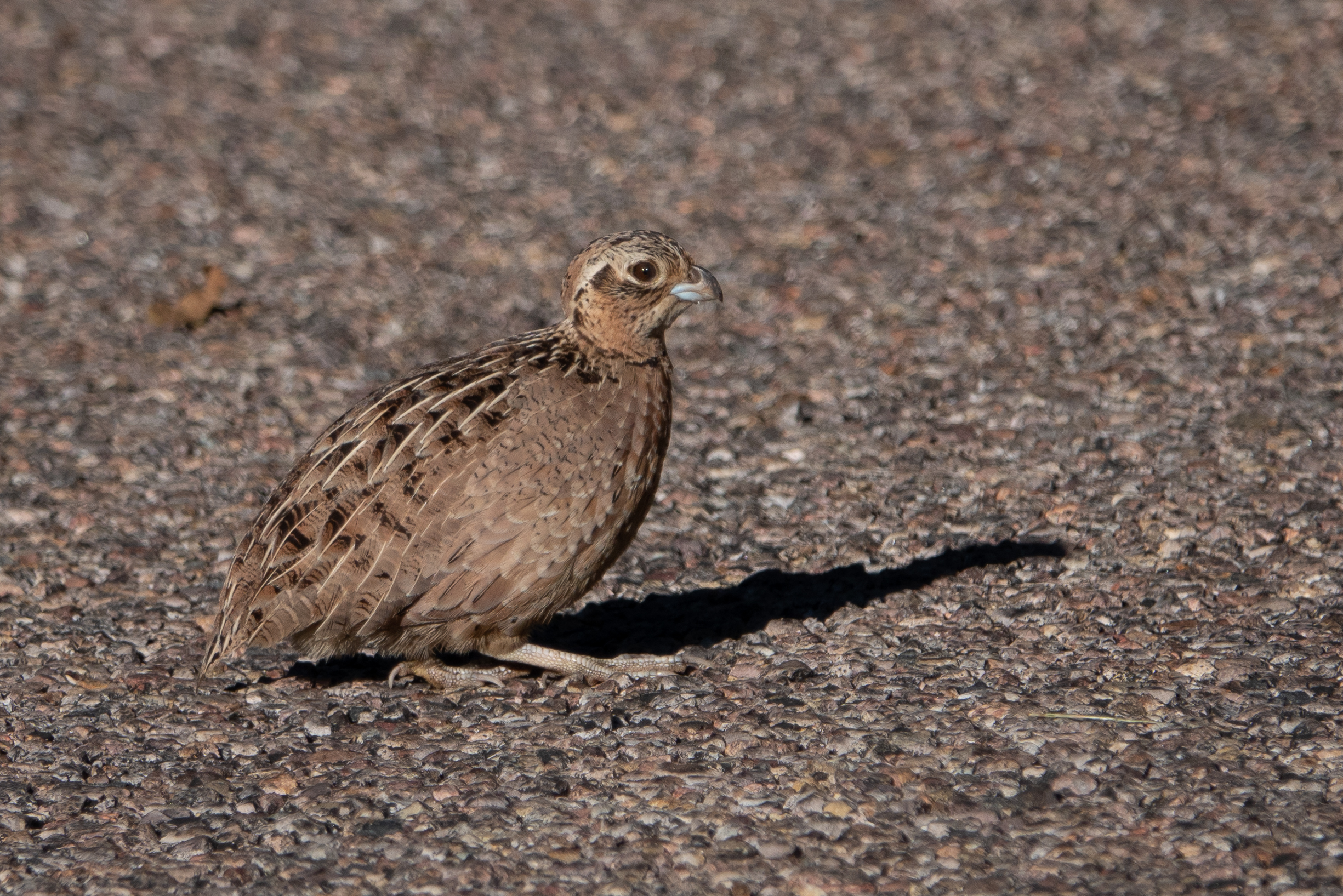 Montezuma Quail (female) | SW Research Station | Portal | AZ|2018-09-05|07-22-32